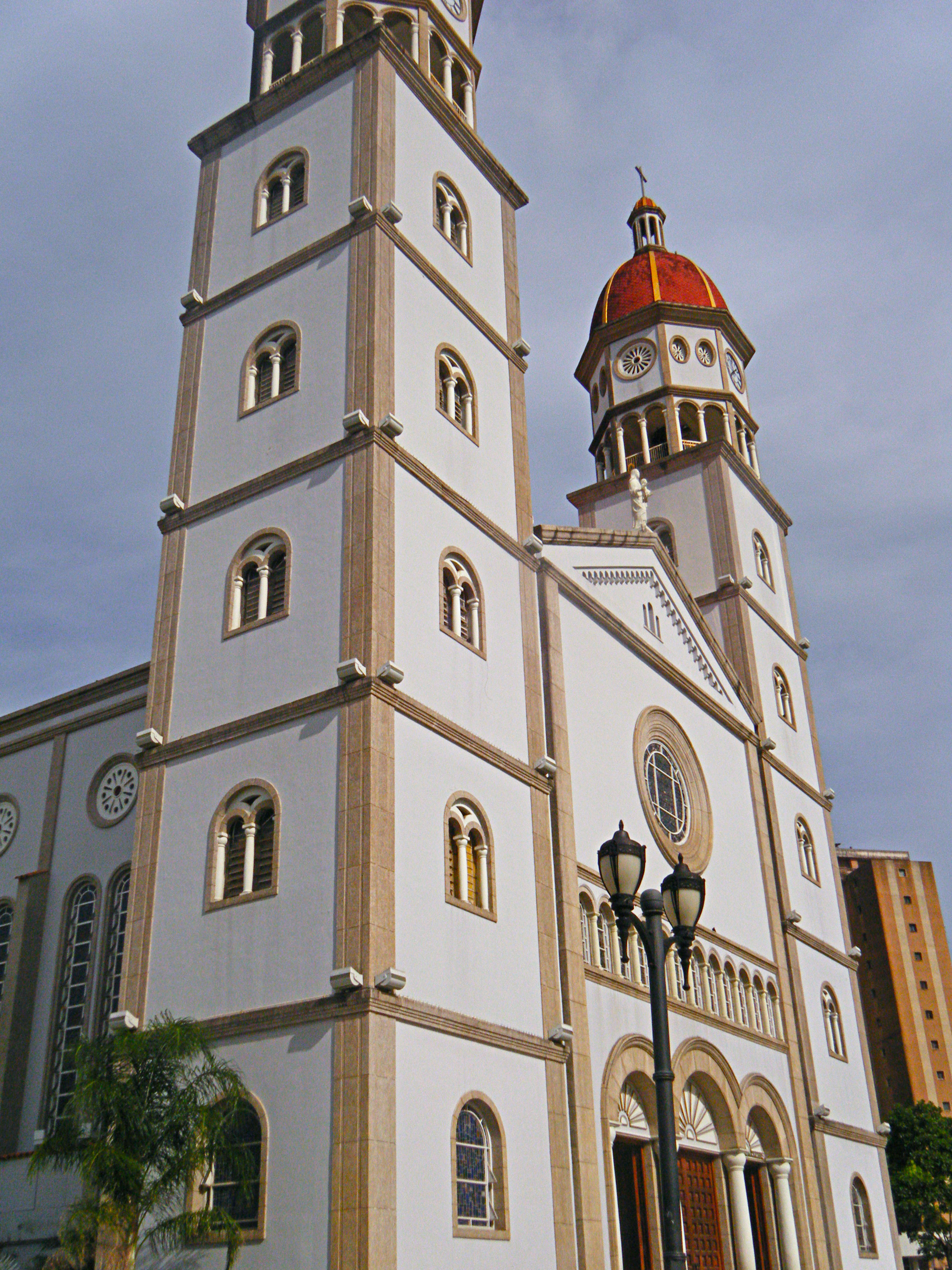 Maturín cathedral, Estado Monagas - Venezuela.